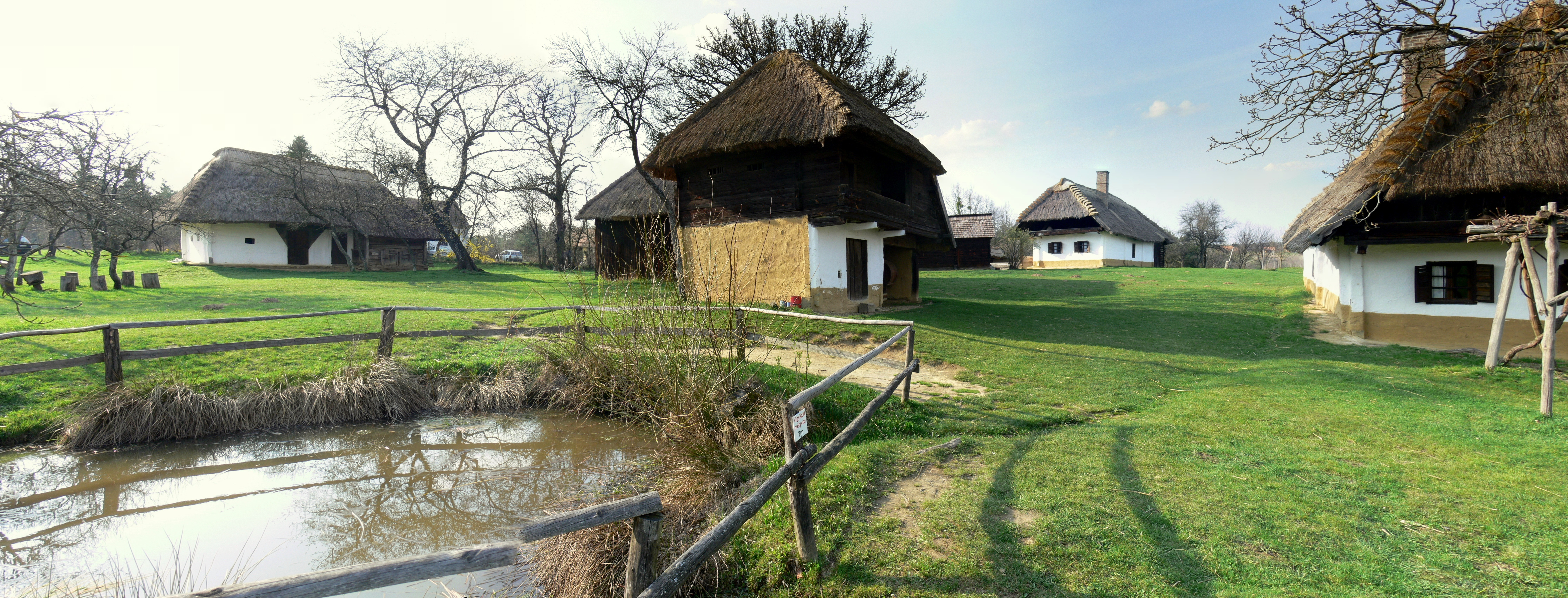 Traditional houses in the Pityerszer part of Szalafő, Hungary